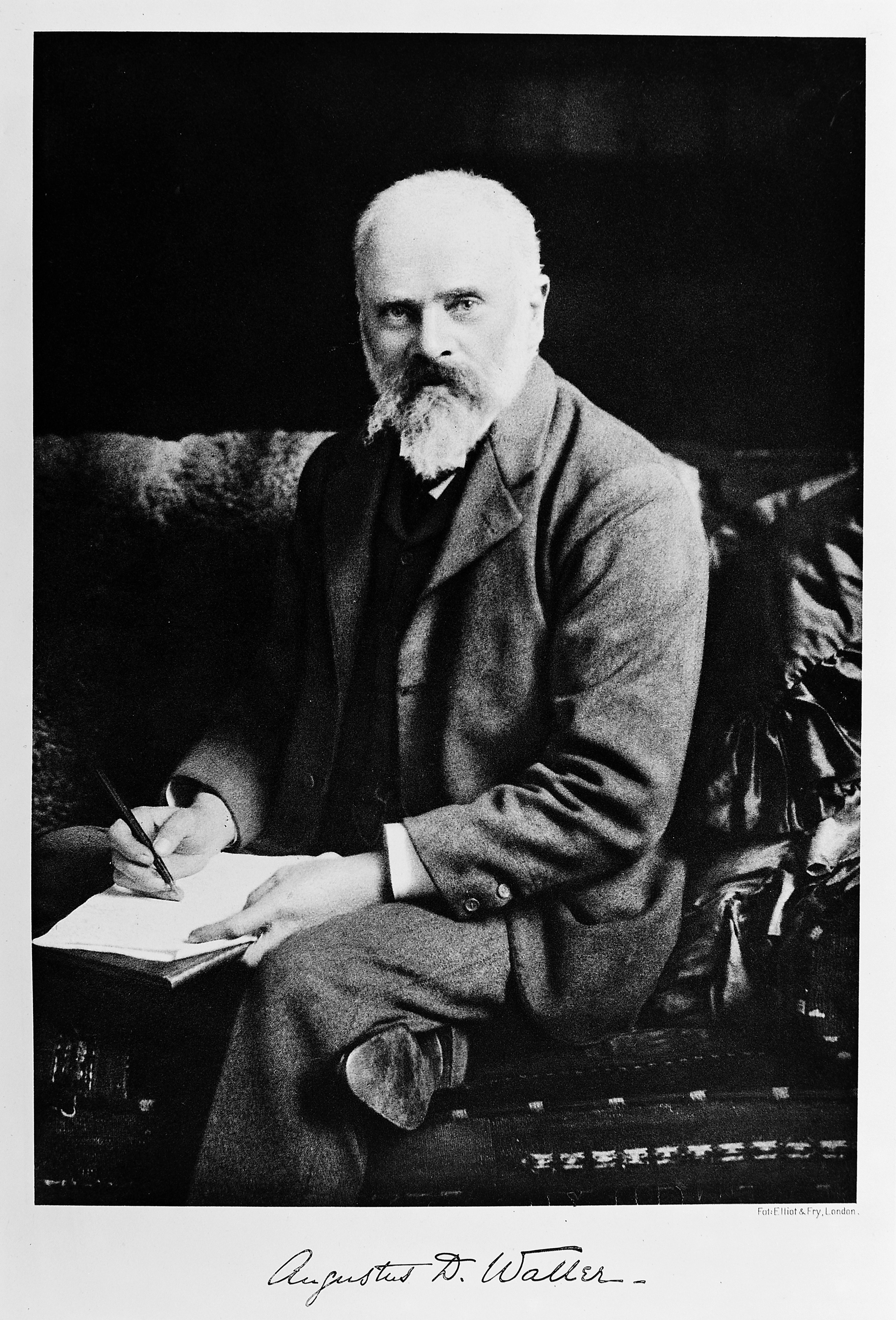 Portrait of A.D. Waller Wellcome Images Keywords: Augustus Desire Waller